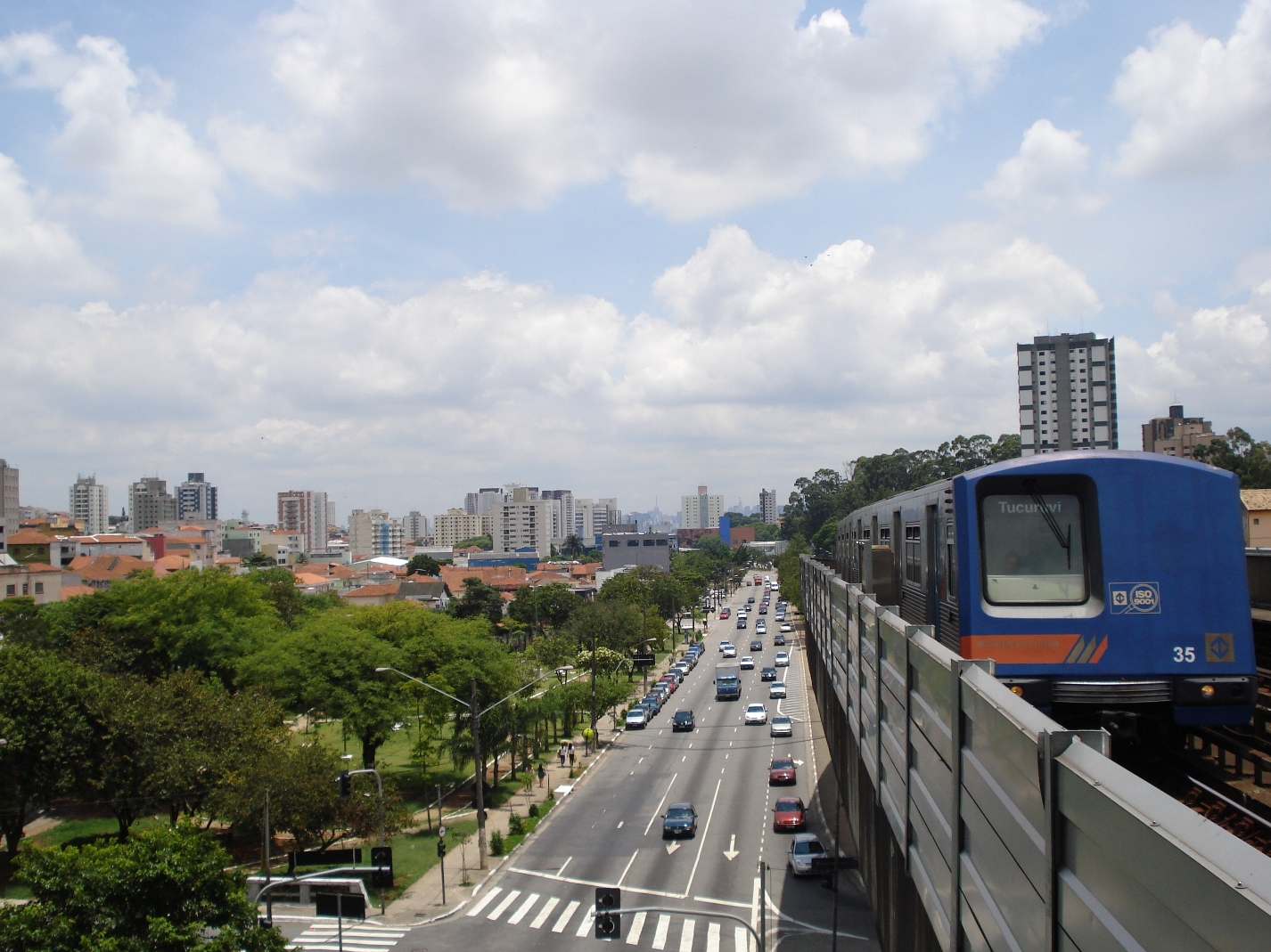 Part of the Luiz Dumont Villares avenue (north region of São Paulo City), as seen from Parada Inglesa Metro Station. São Paulo, SP, Brazil.